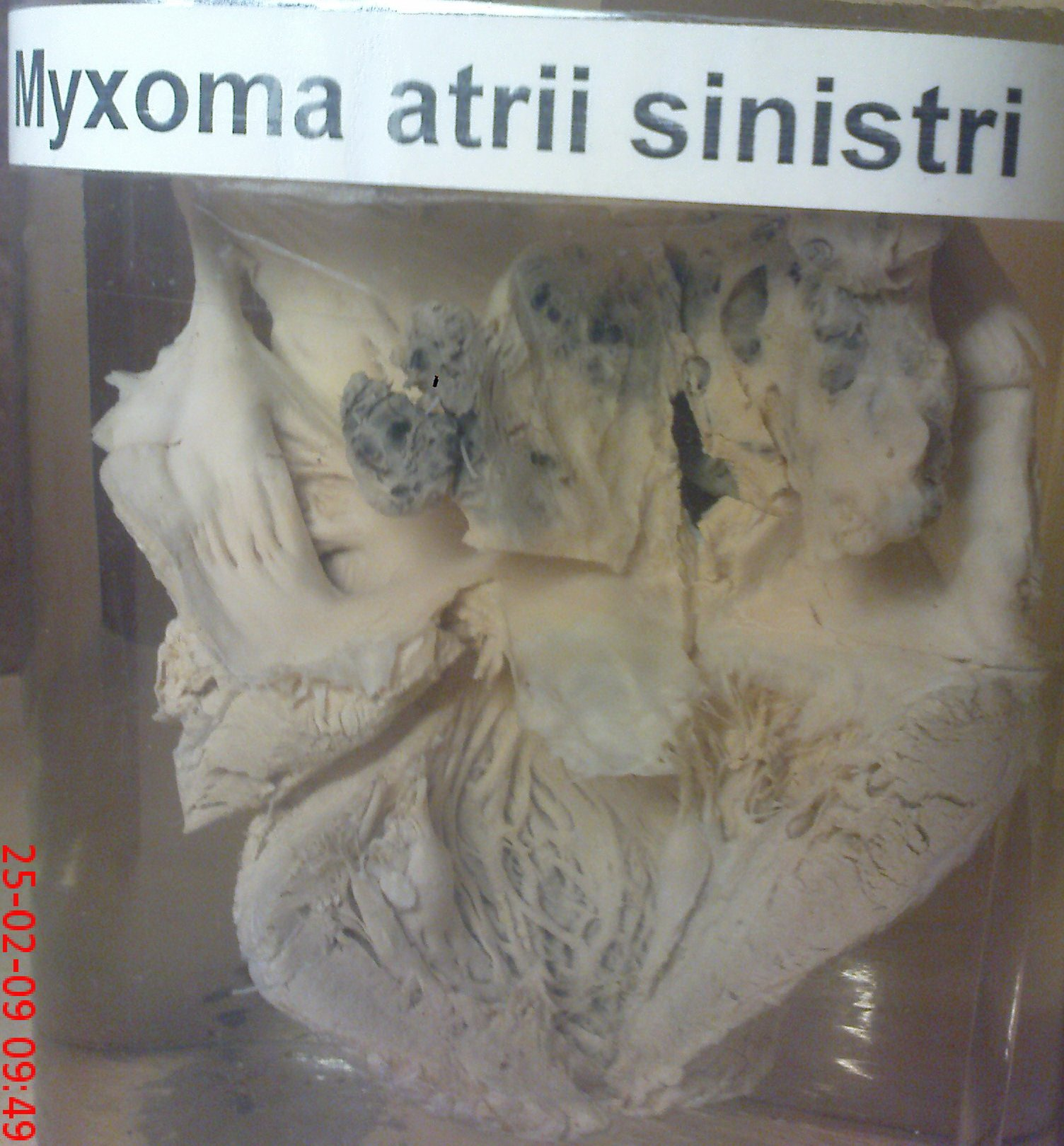 Preparation "myxoma atrii sinistri" from the exhibition in the corridor of the Collegium Medicum building of the Jagiellonian University on Grzegórzecka 16 in Cracow.